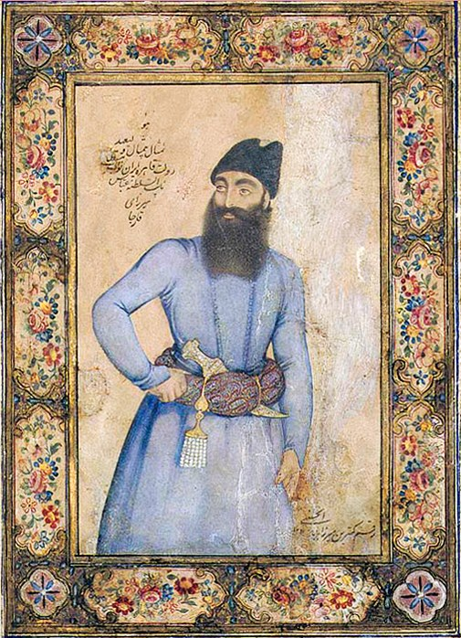 Portrait of Prince Abbas Mirza Qajar